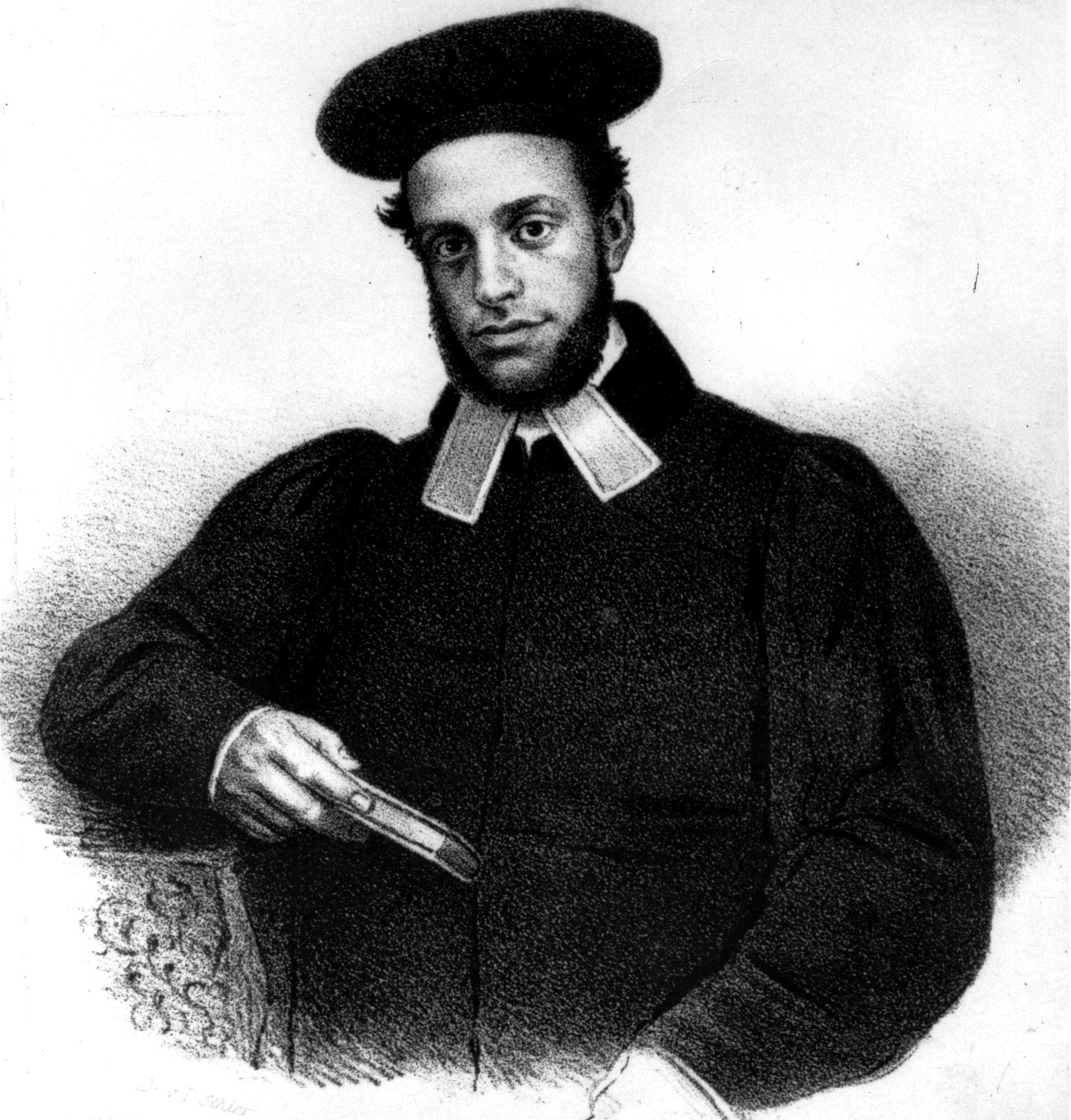 Samson Raphael Hirsch (1808-1888), Lithography, 1847